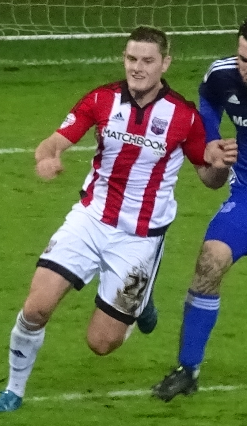 Jack O'Connell playing for Brentford against Cardiff City at Cardiff City Stadium on 15 December 2015